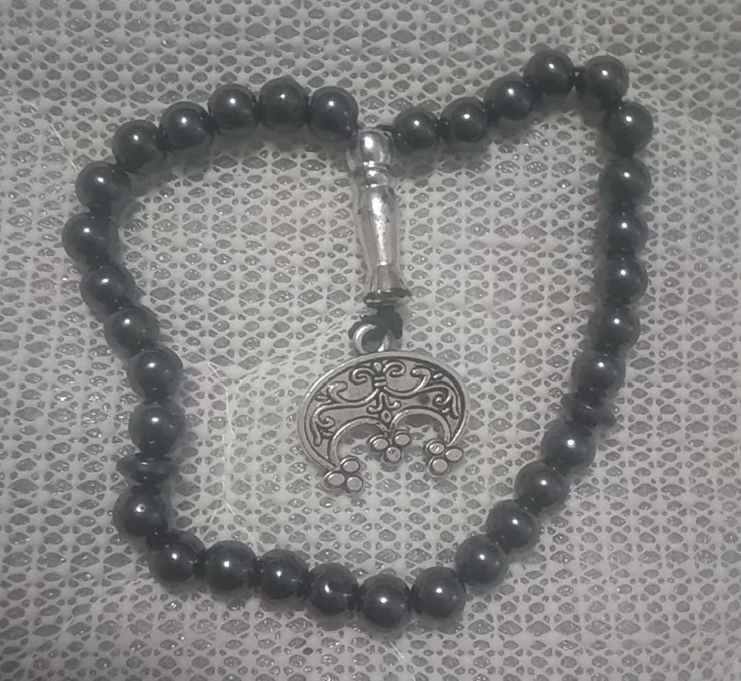 Prayer_beads (with lunnica)